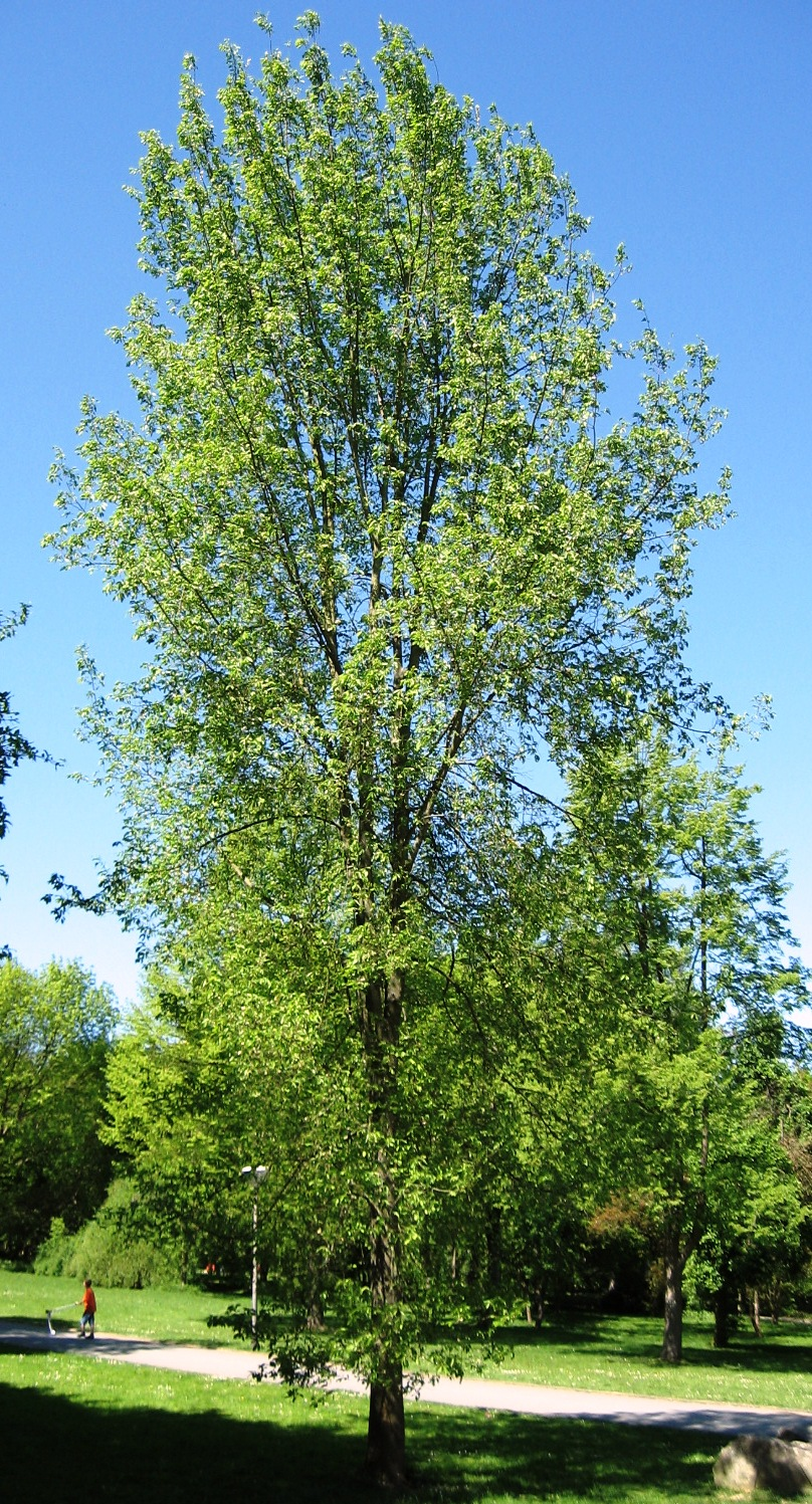 Ulmus 'Regal' (dortmund); Photo by R. Nijboer